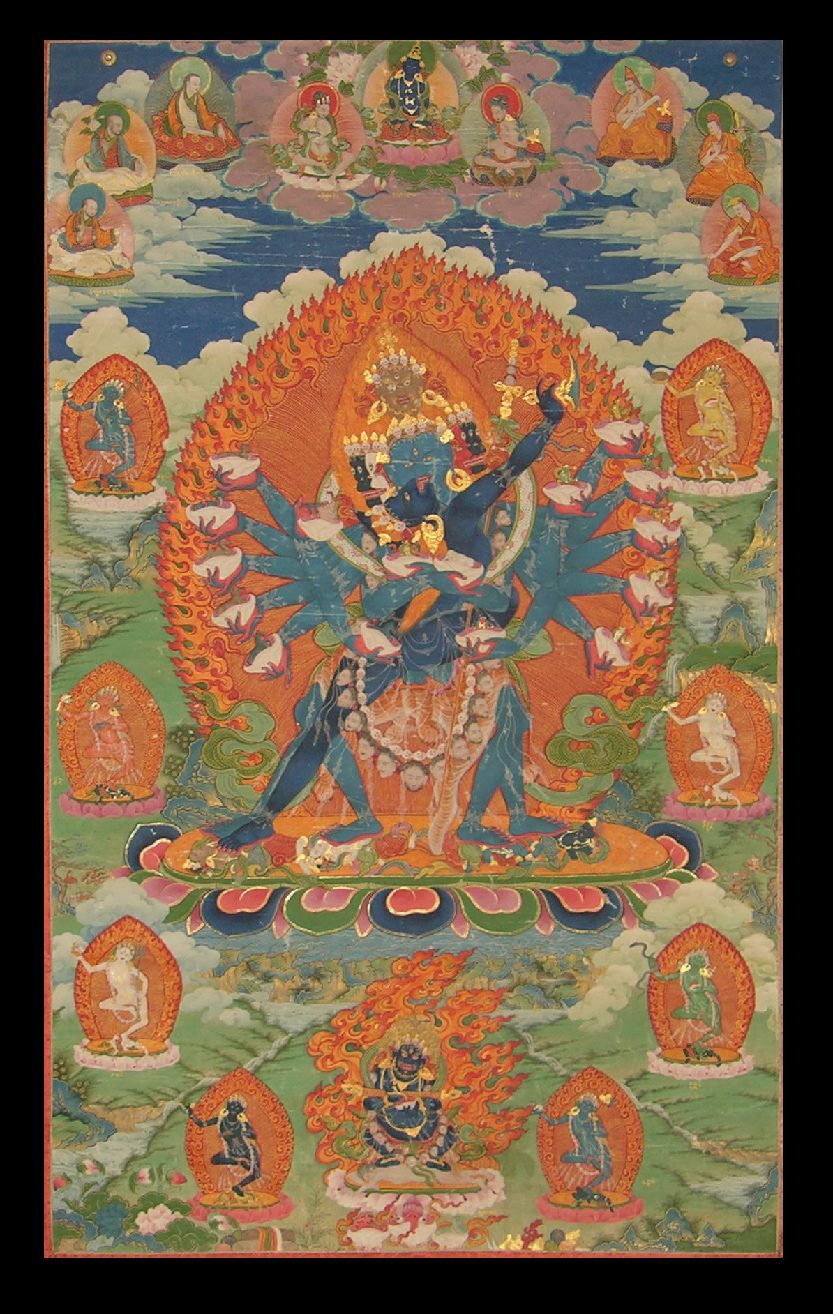 Tibet, 18th century Mineral Pigments on Cloth 16 3/4 X 28 Inches Owned and freely licensed by Walter Arader. The figures at top are centered by Vajradhara flanked by Saroruhavajra (left) and Virupa (right). At the top left is Khon Konchog Gyalpo, Sachen Kunga Nyingpo and Jetsun Dragpa Gyaltsen. At the top right side are Gayadhara, Drogmi Lotsawa and Kedrub Geleg Pal Zangpo. At the bottom center is Panjarnata Mahakala, the principle protector for the Hevajra system of Tantric practice.